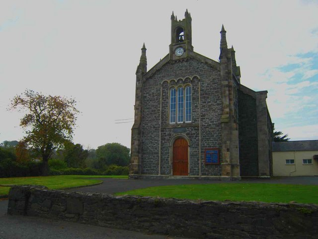 Conlig Presbyterian Church Built 1848.